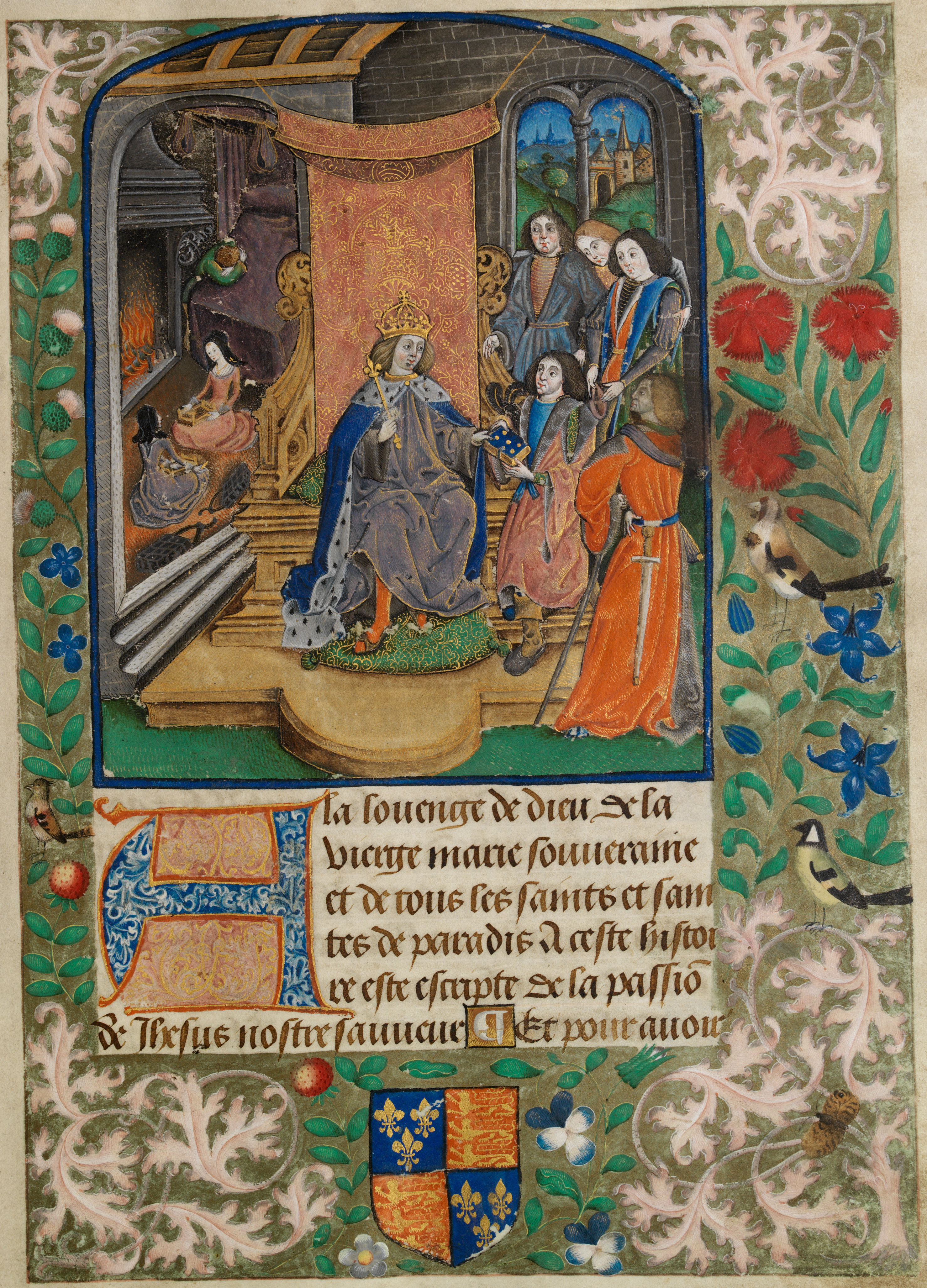 Henry VII receiving (this) manuscript as a gift. In the background to the top left is Henry VIII as a child weeping over the death of his mother. His sisters, Mary and Margaret sit in the foreground